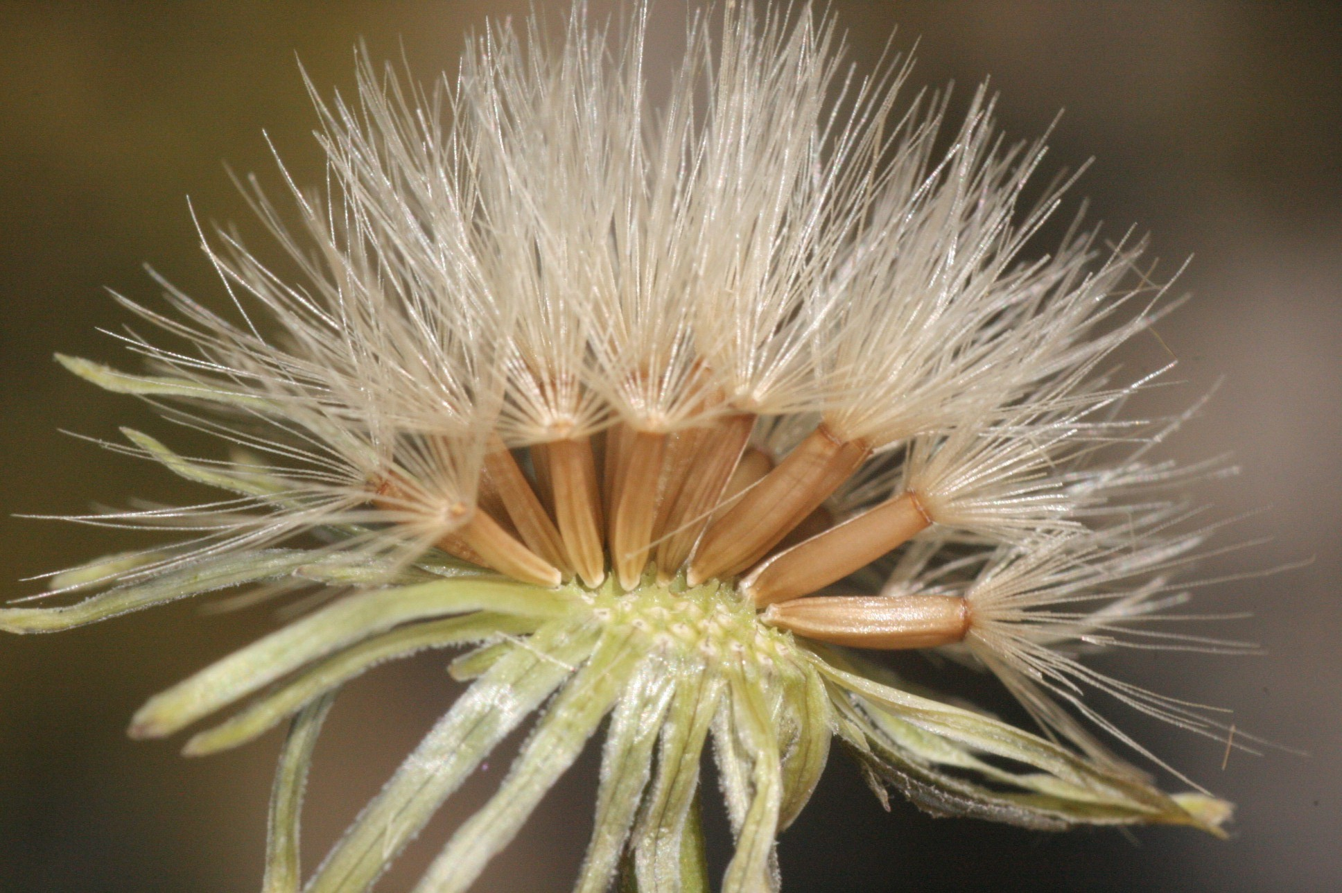 Hieracium porrifolium